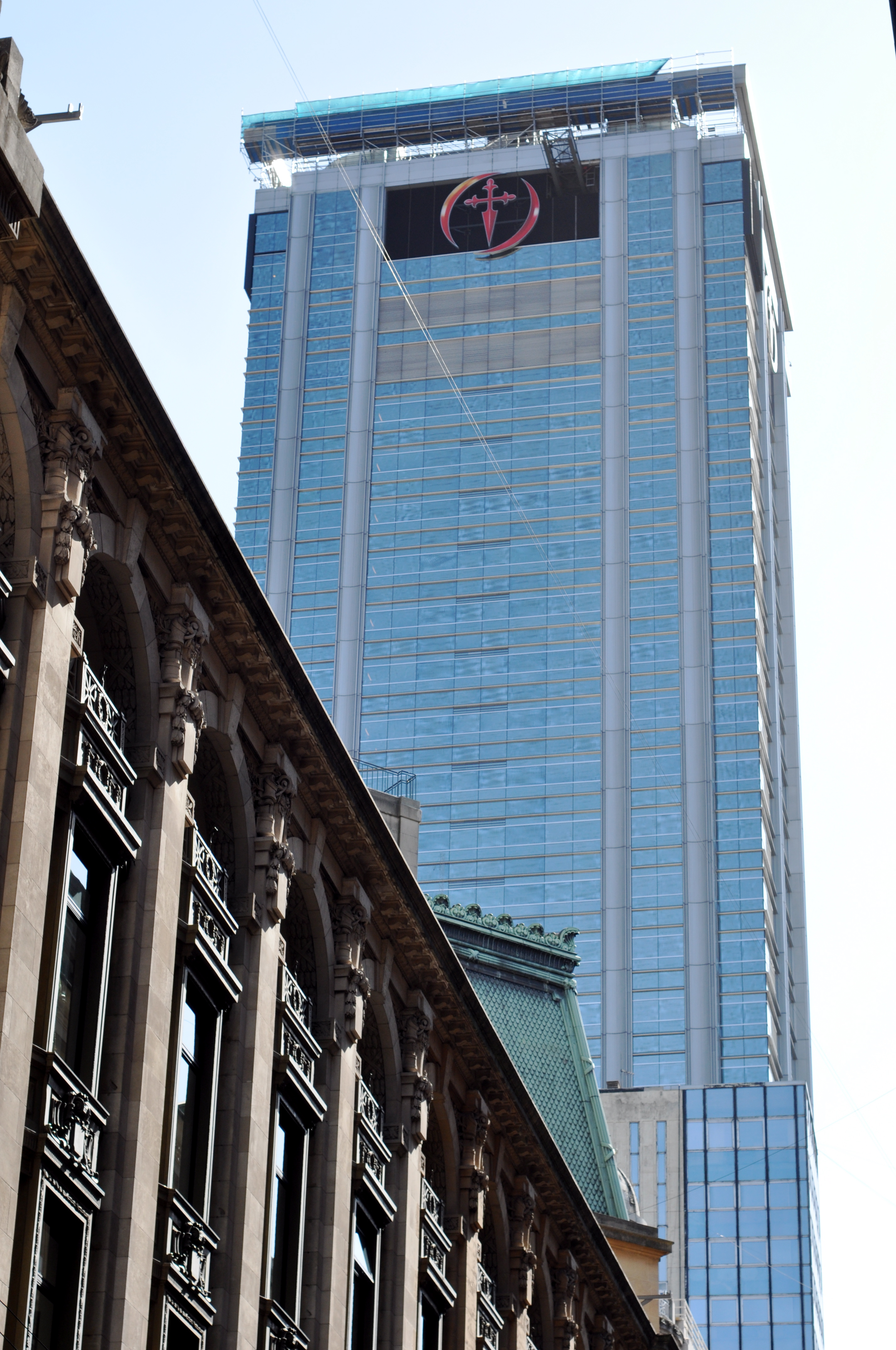 Headquarters of the Galicia Financial Group, Buenos Aires.